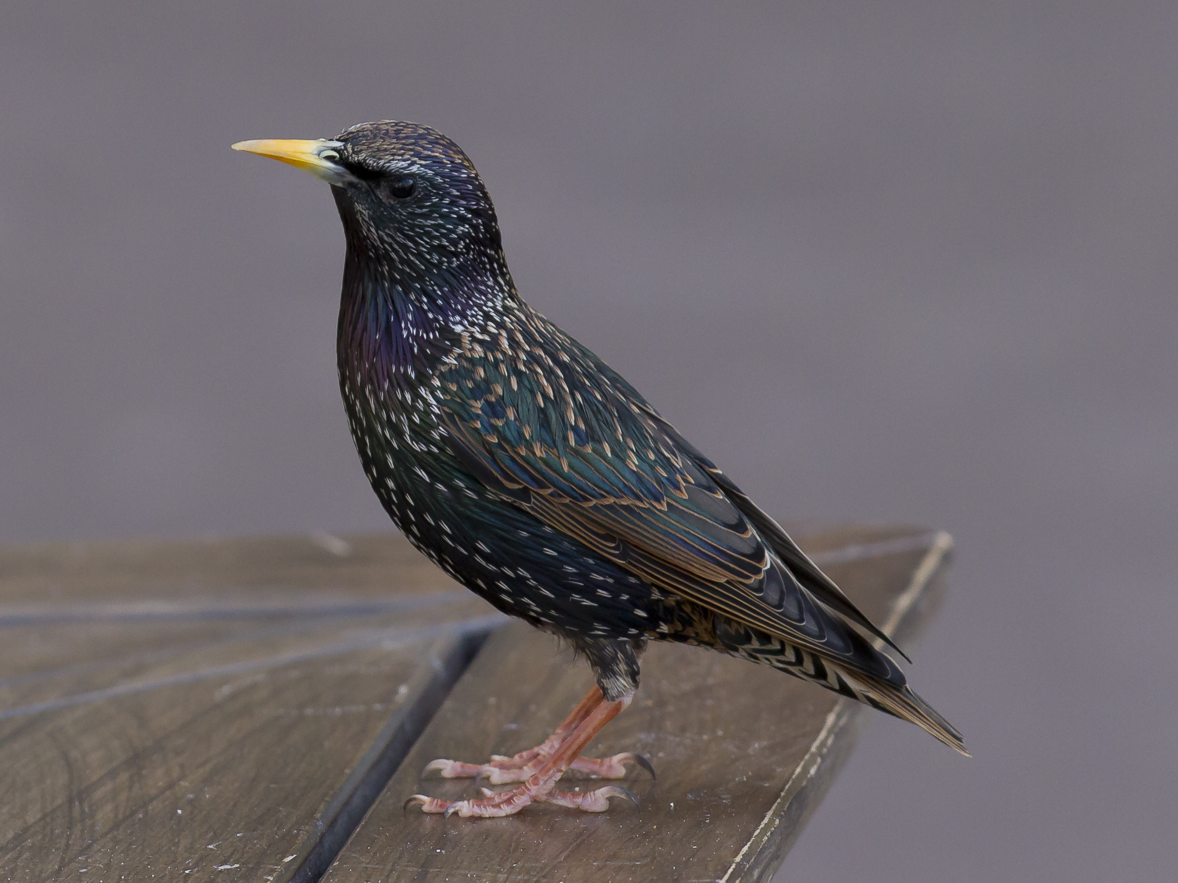 Common starling (Sturnus vulgaris) in Toulouse